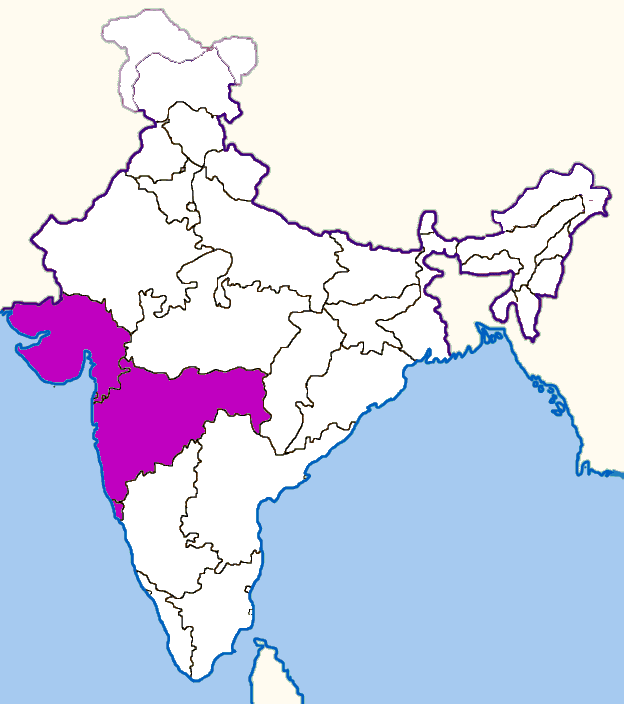 The states of West India. Based on Image:Northindiamap.gif. QuartierLatin1968 21:54, 21 January 2006 (UTC)